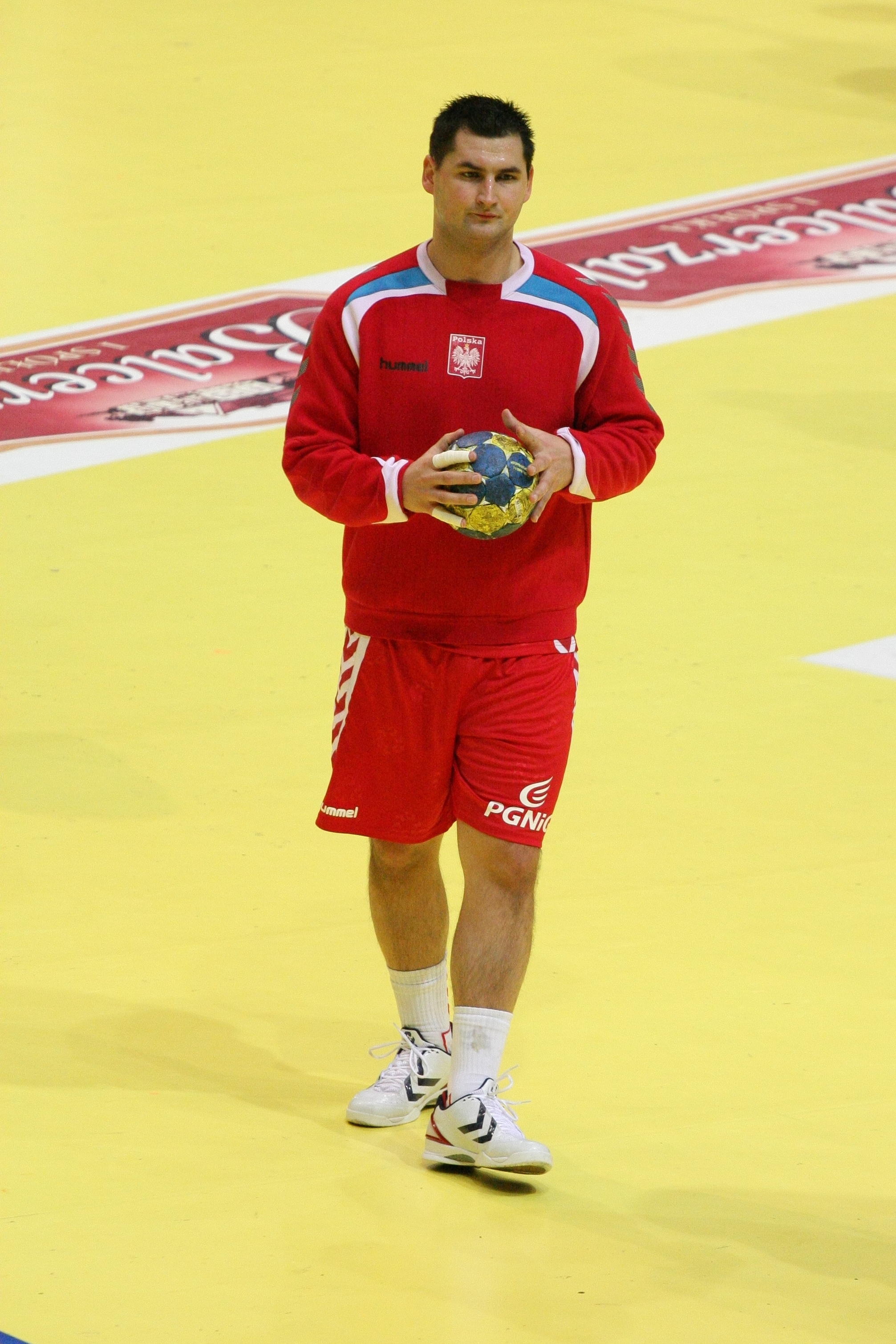 New Year's Cup Gdynia. Poland vs Czech Republic